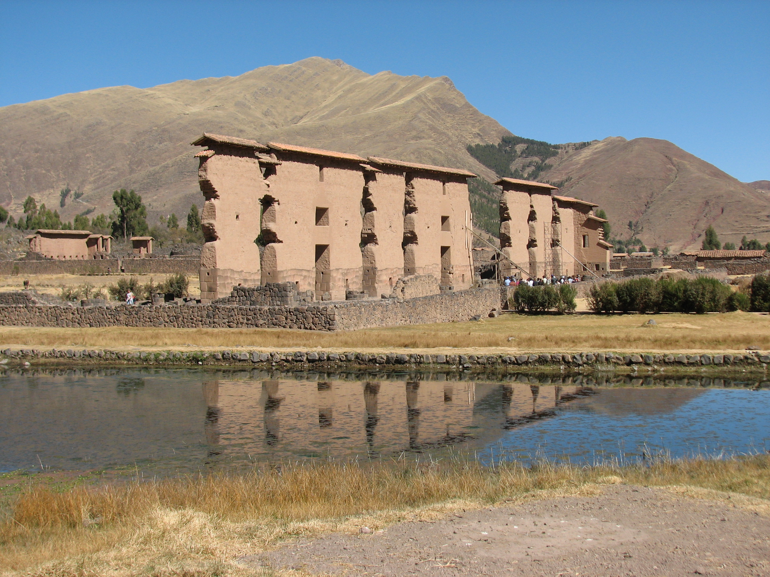 Raqchi archaeological site in Peru